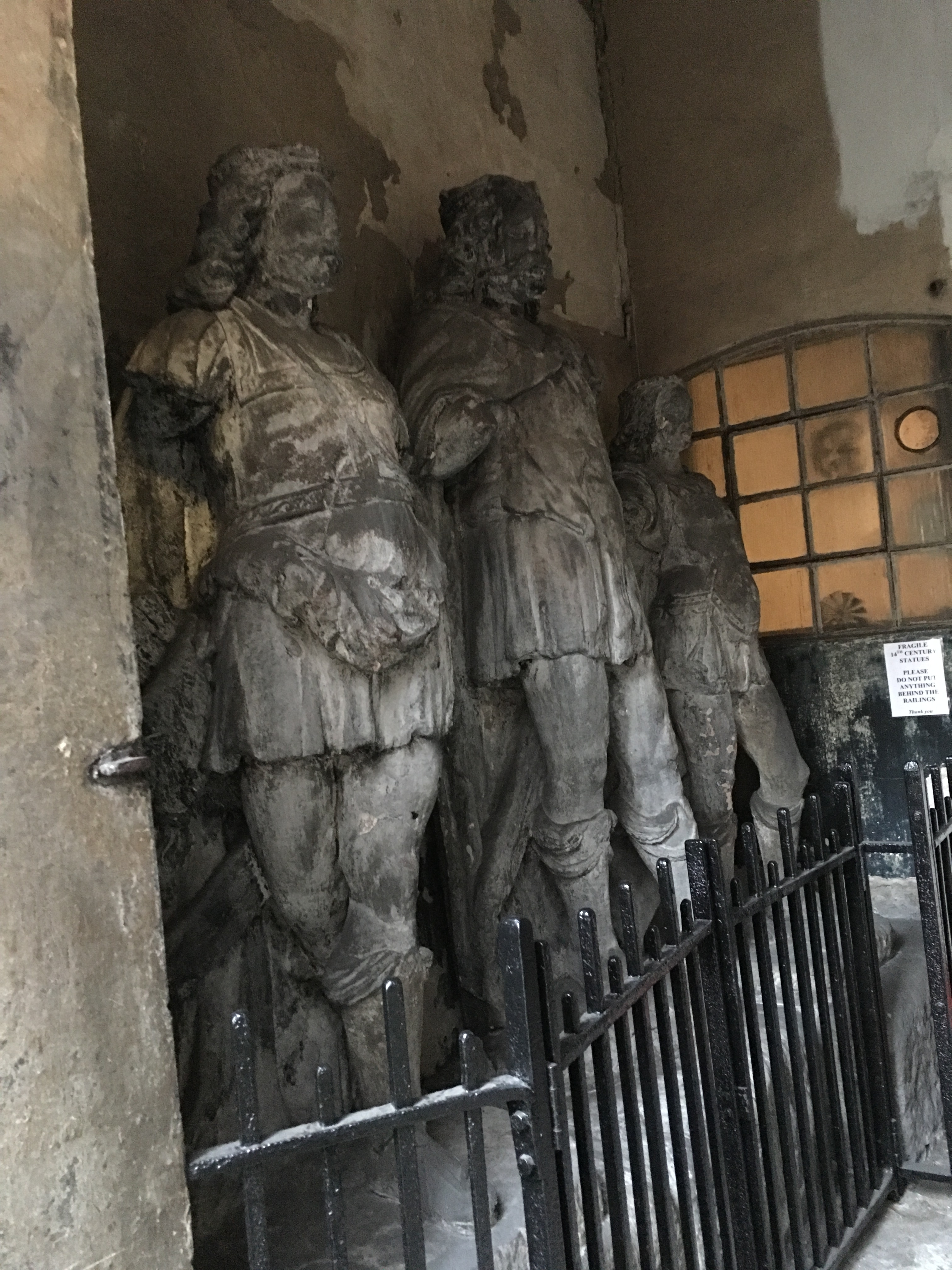 St Dunstan's Church Fleet Street, home to statues of King Lud and his sons taken from nearby Ludgate